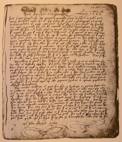 The Utrecht manuscript of the Prose Edda (Codex Trajectinus)